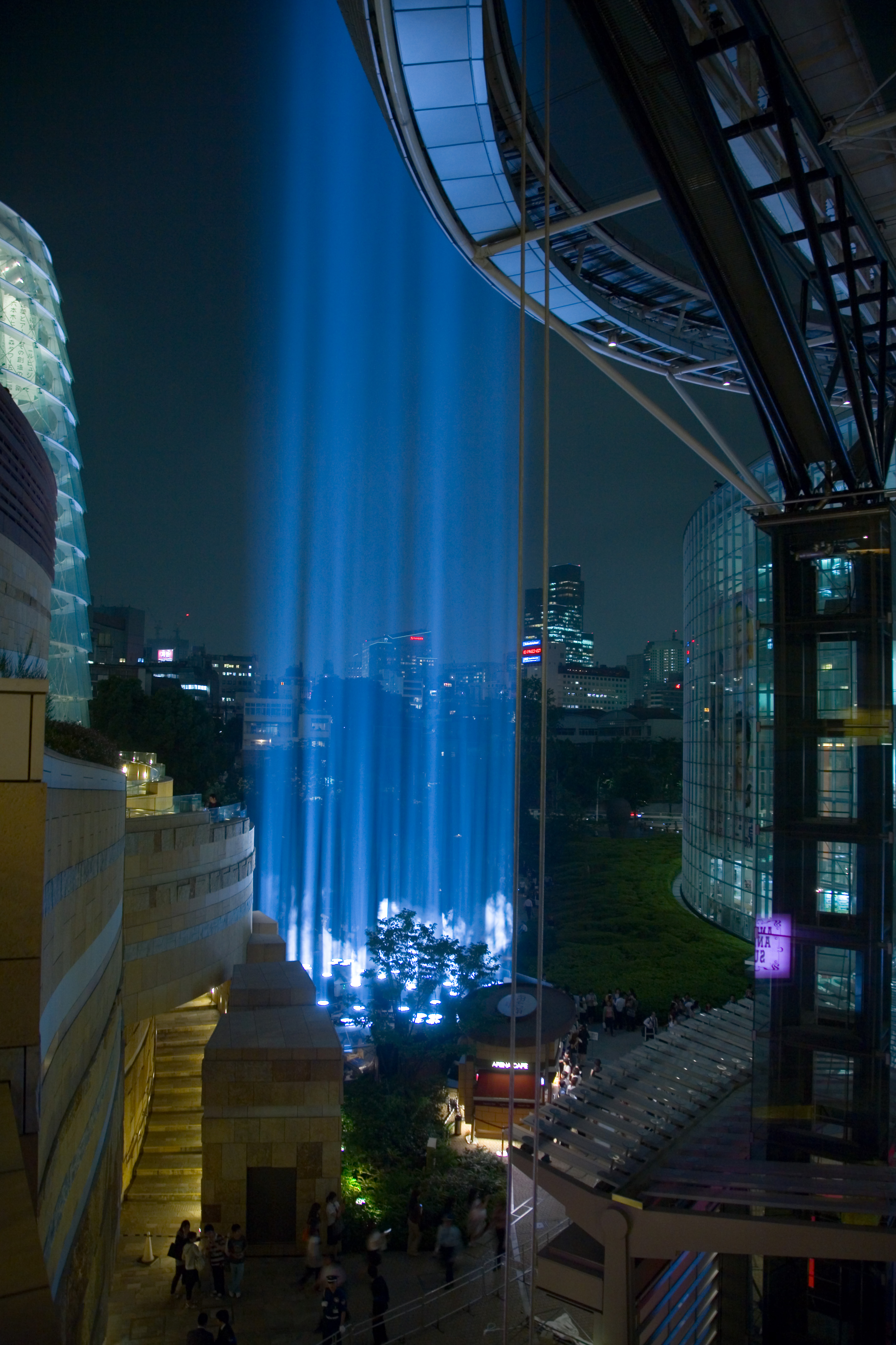 Searchlights at the Tokyo June 2007 premier of Harry Potter and the Order of the Phoenix.